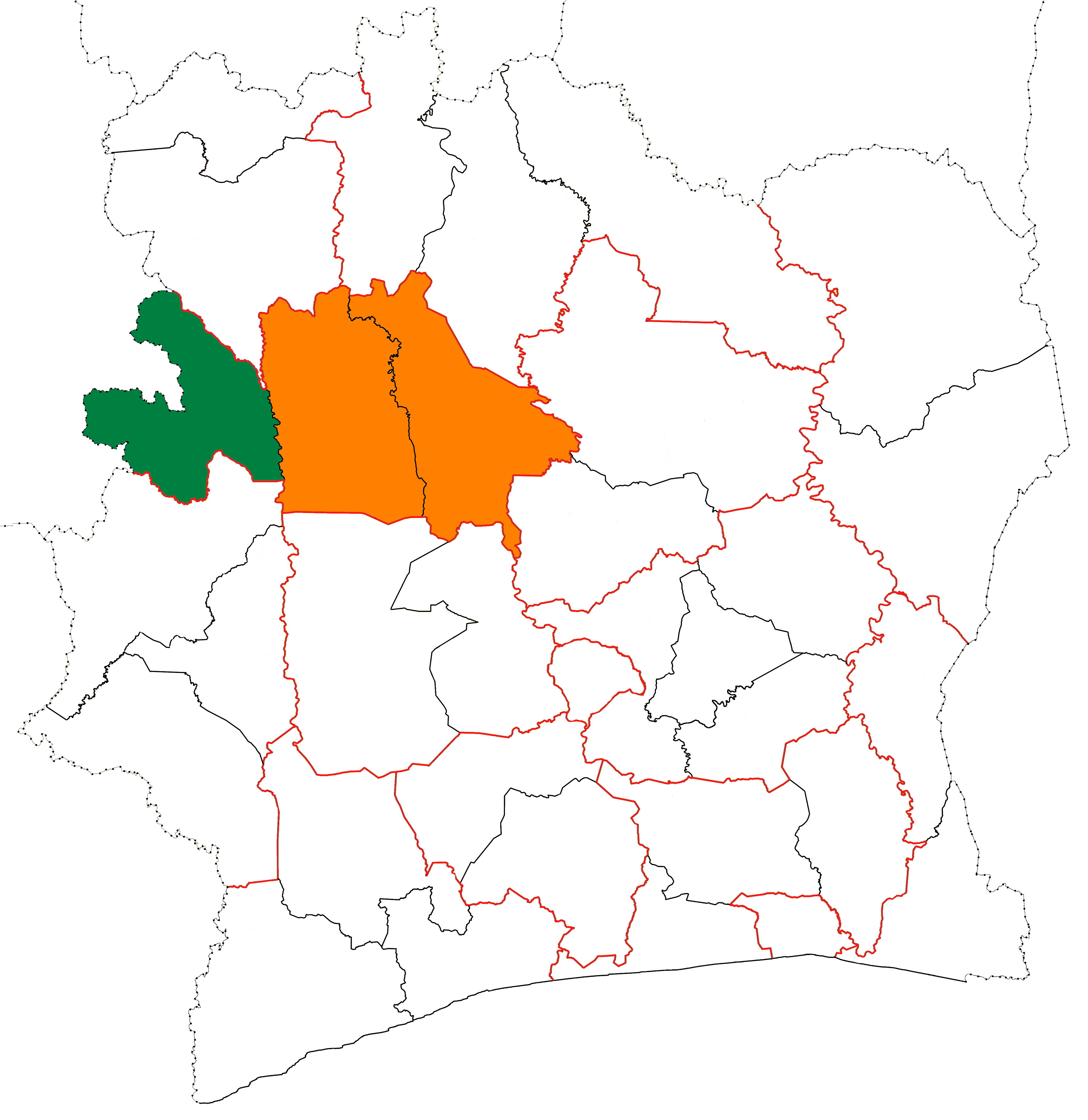 The location of Bafing region (green) in Côte d'Ivoire. The other shaded areas represent the other parts of Woroba District.